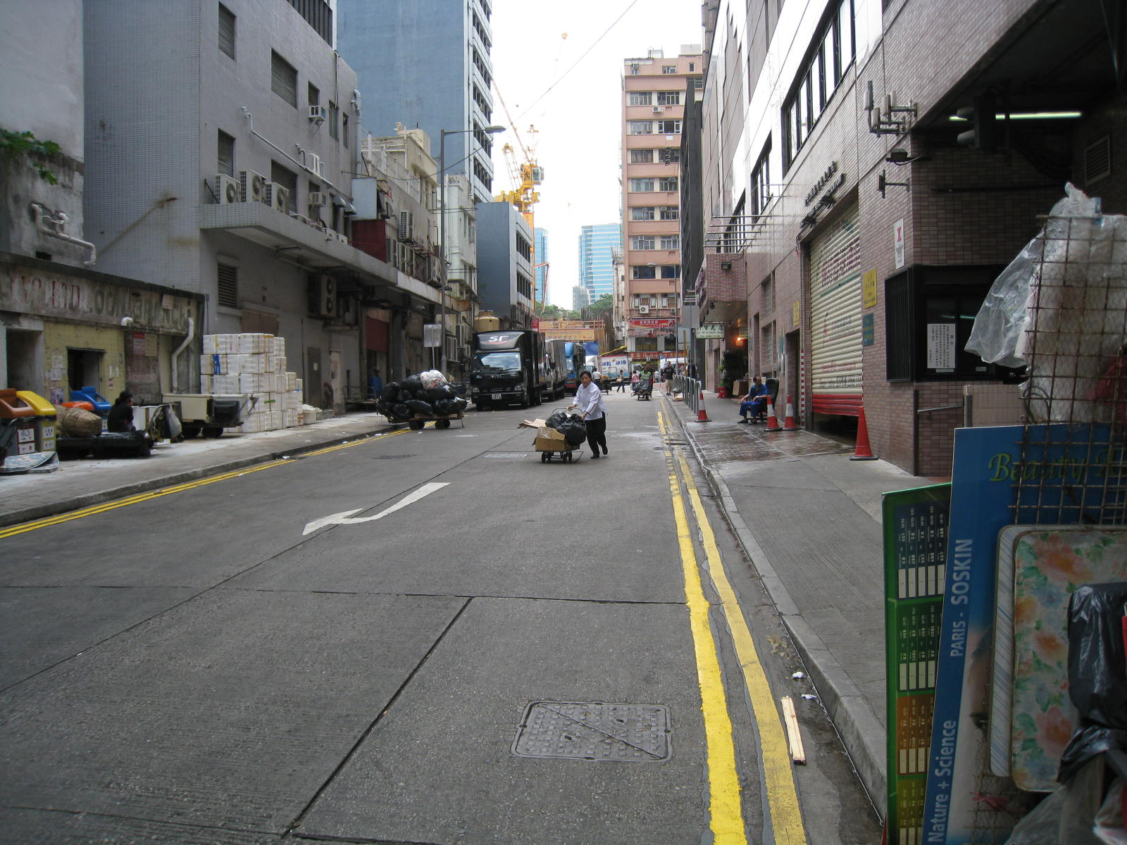 Looking west at Kimberley Street, Tsim Sha Tsui, Hong Kong